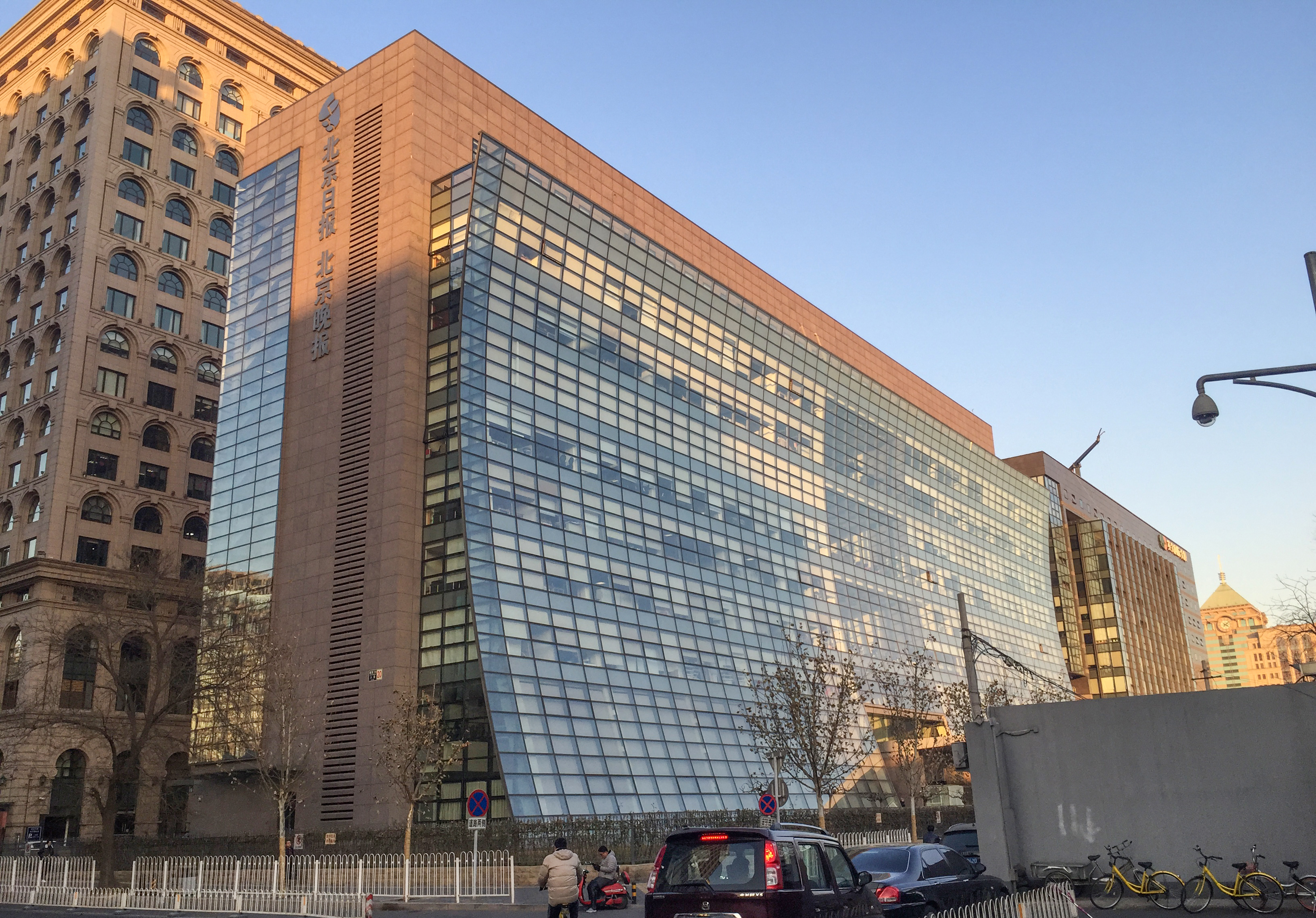 HQ of Beijing Daily Group, owning two major newspapers of Beijing: Beijing Daily and Beijing Evening News.